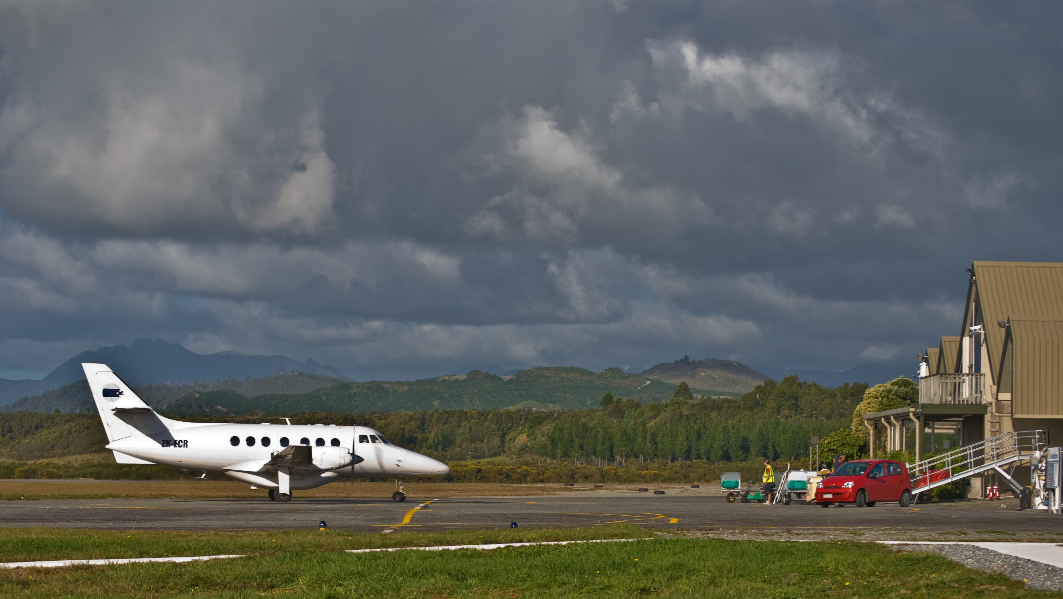 Air National aircraft chartered to operate my Air New Zealand flight to Christchurch.